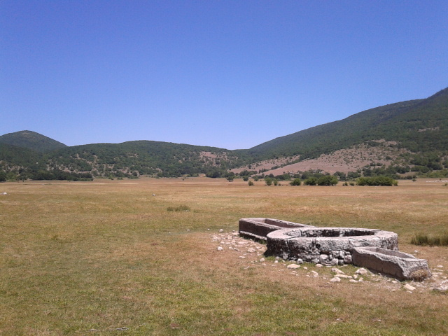 Panoramic view of Amplero valley, Collelongo, Abruzzo, Italy